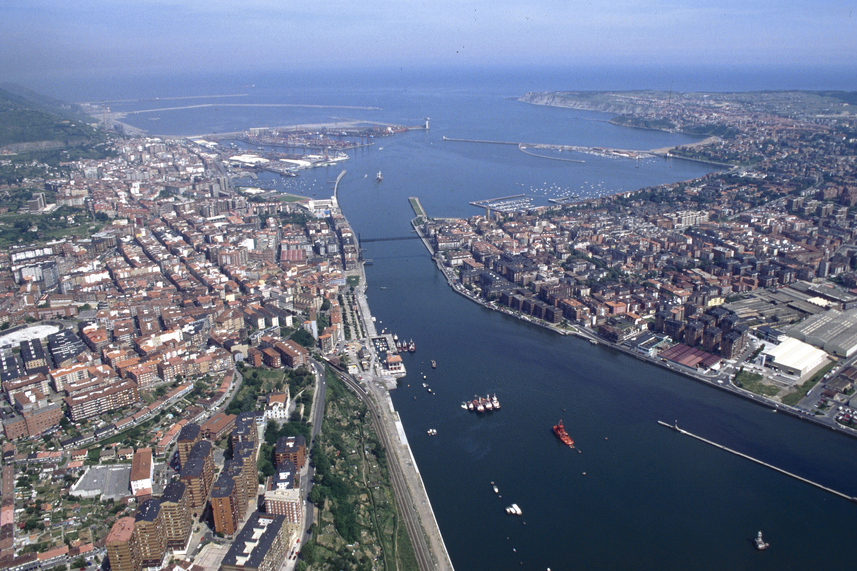 Port of Bilbao 2002, Bizkaia, Basque Country.